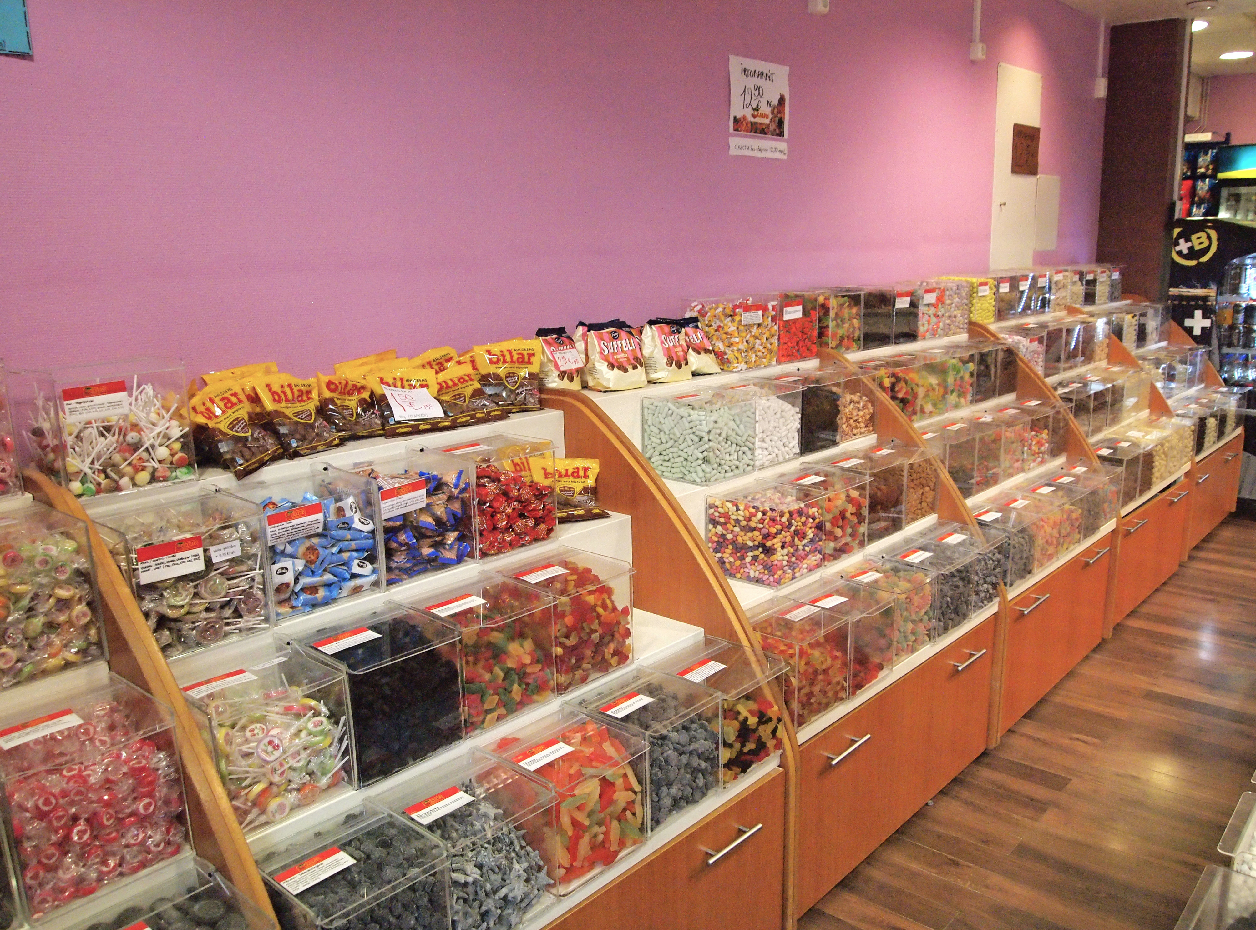 Candy store in Forum shopping centrum in Jyväskylä. This photograph was taken with an Olympus E-PL1